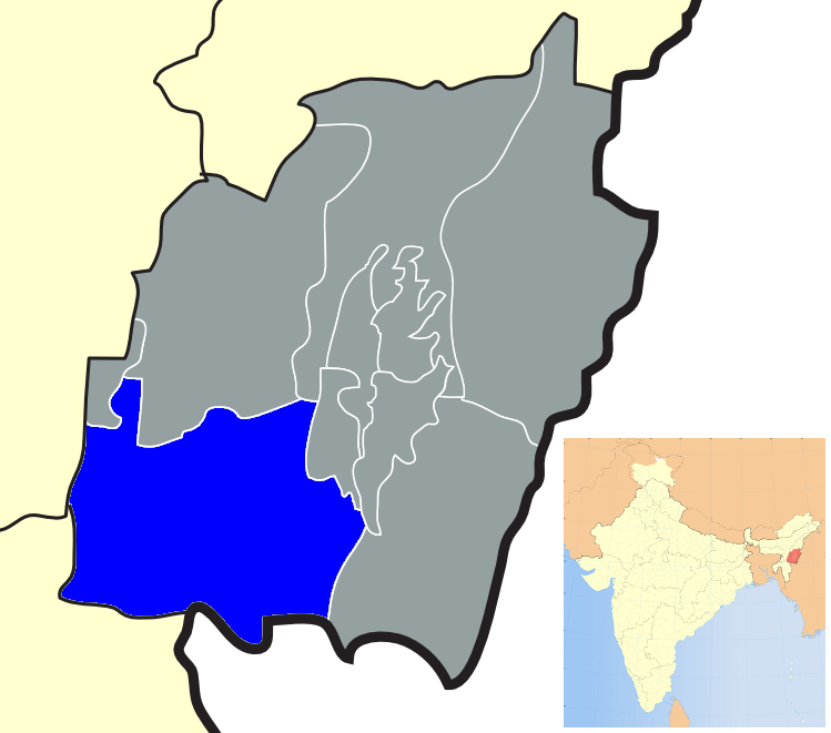 This is a retouched picture, which means that it has been digitally altered from its original version. The original can be viewed here: India Manipur locator map.svg.